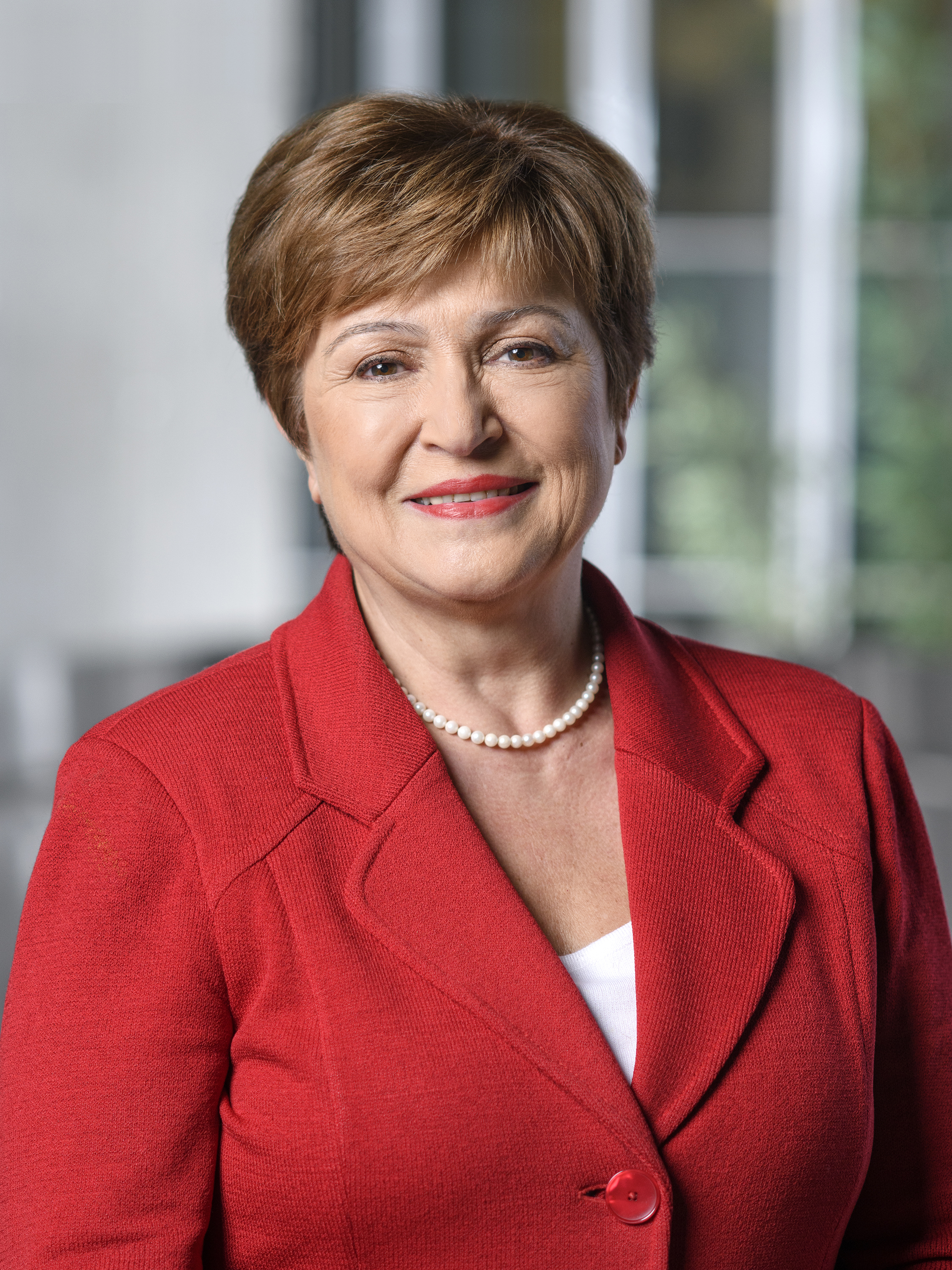 Headshot of Kristalina Georgieva, CEO of the World Bank